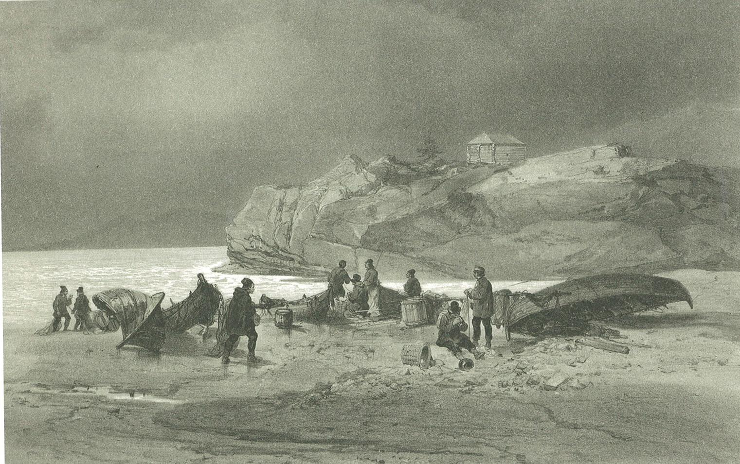 Coast sami and researchers in Bossegohppi, Alta - 1838